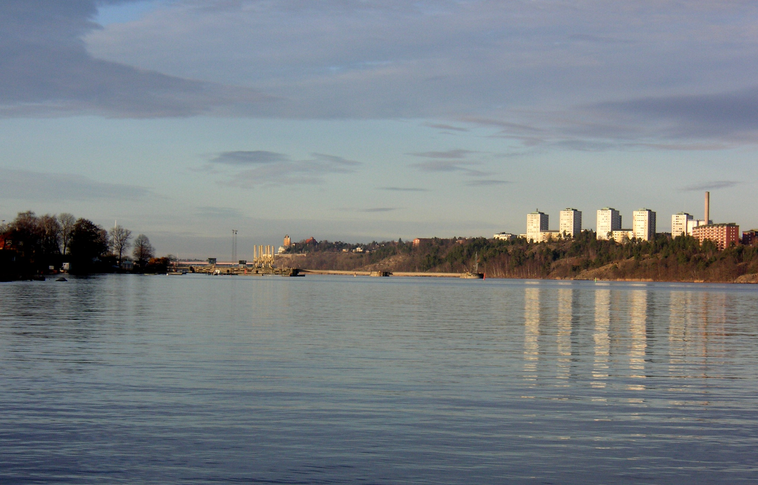 Lilla Värtan in Stockholm, Sweden